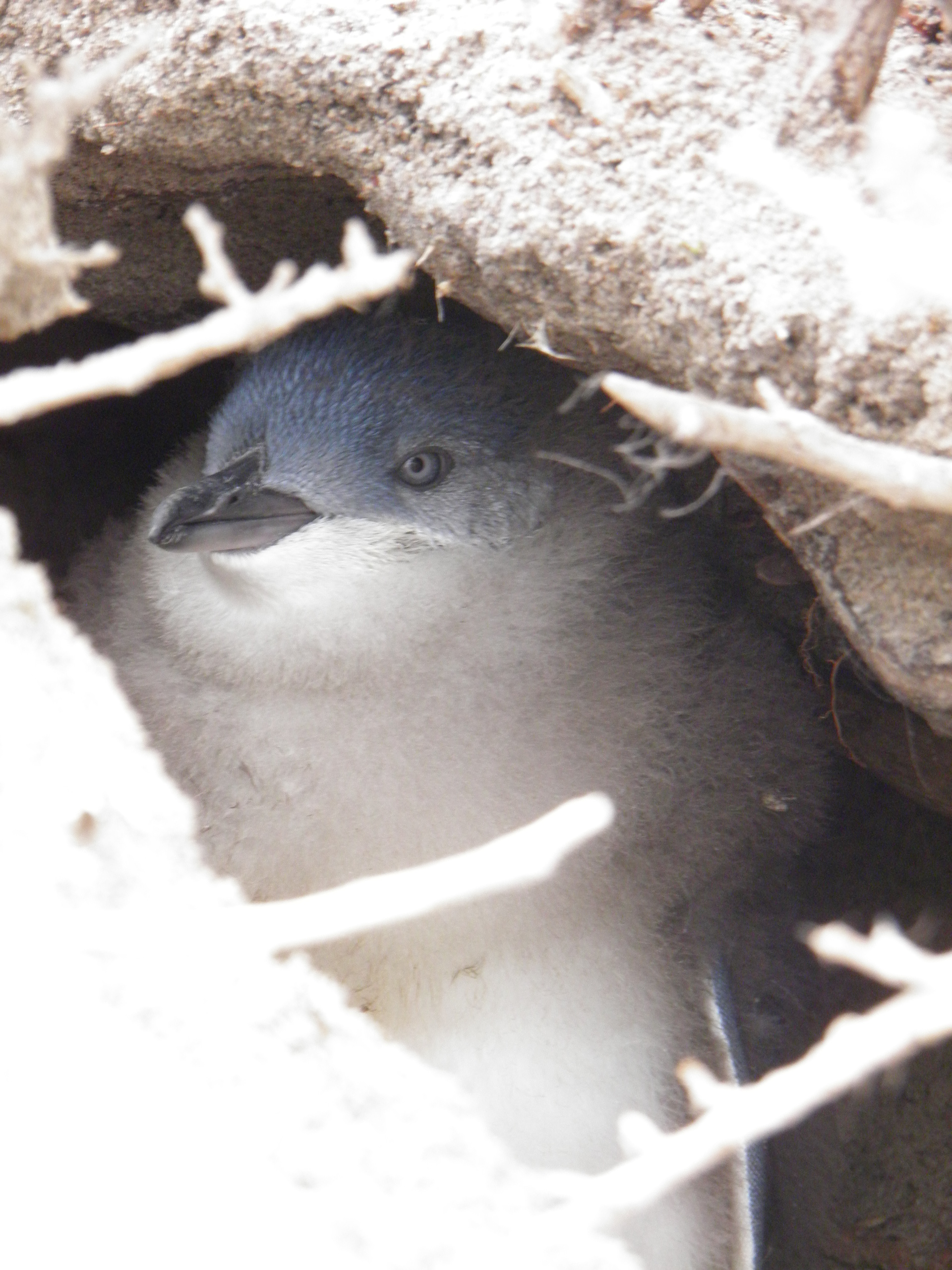 Fairy Penguin Chick on Lipson Island Conservation Park, Lipson Cove, Spencer Gulf, South Australia